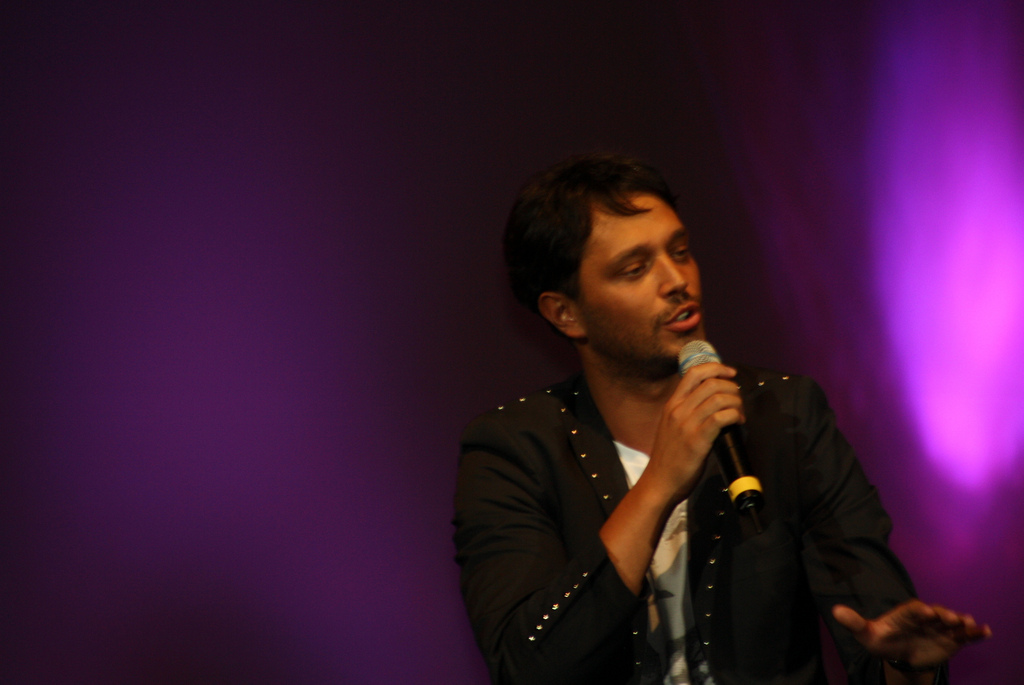 Murat Boz.